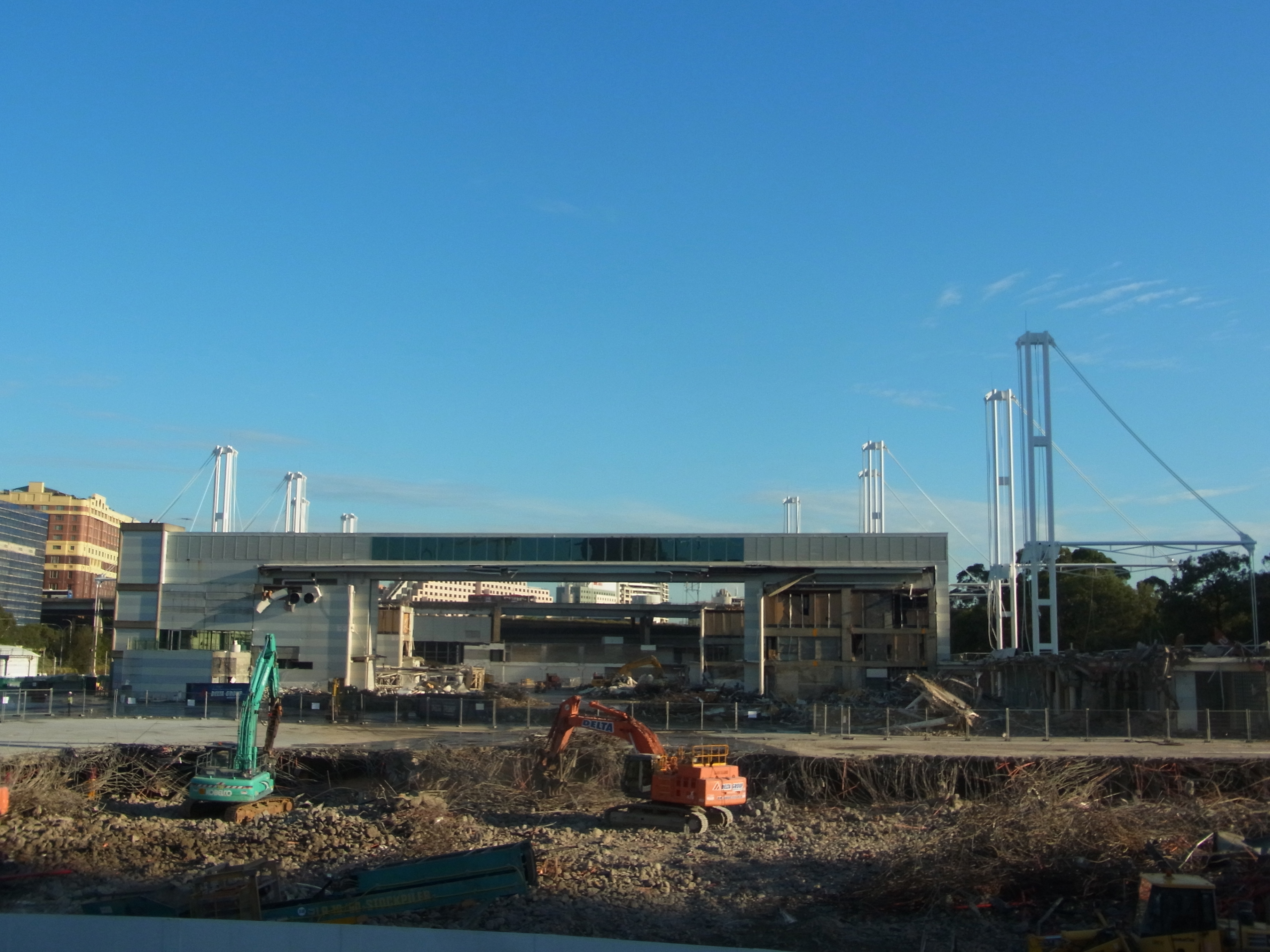 a view of the demolition of award winning Sydney Exhibition Building in March 2014. The building, designed by Philip Cox Richardson Taylor Partners and completed in 1988, was a joint winner of the i989 John Sulman Medal.